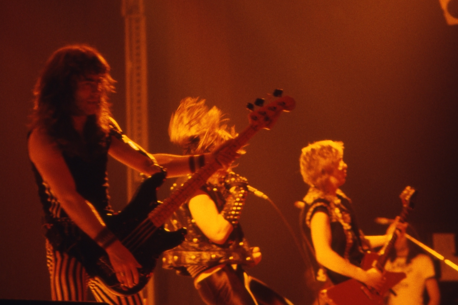 Iron Maiden 1982